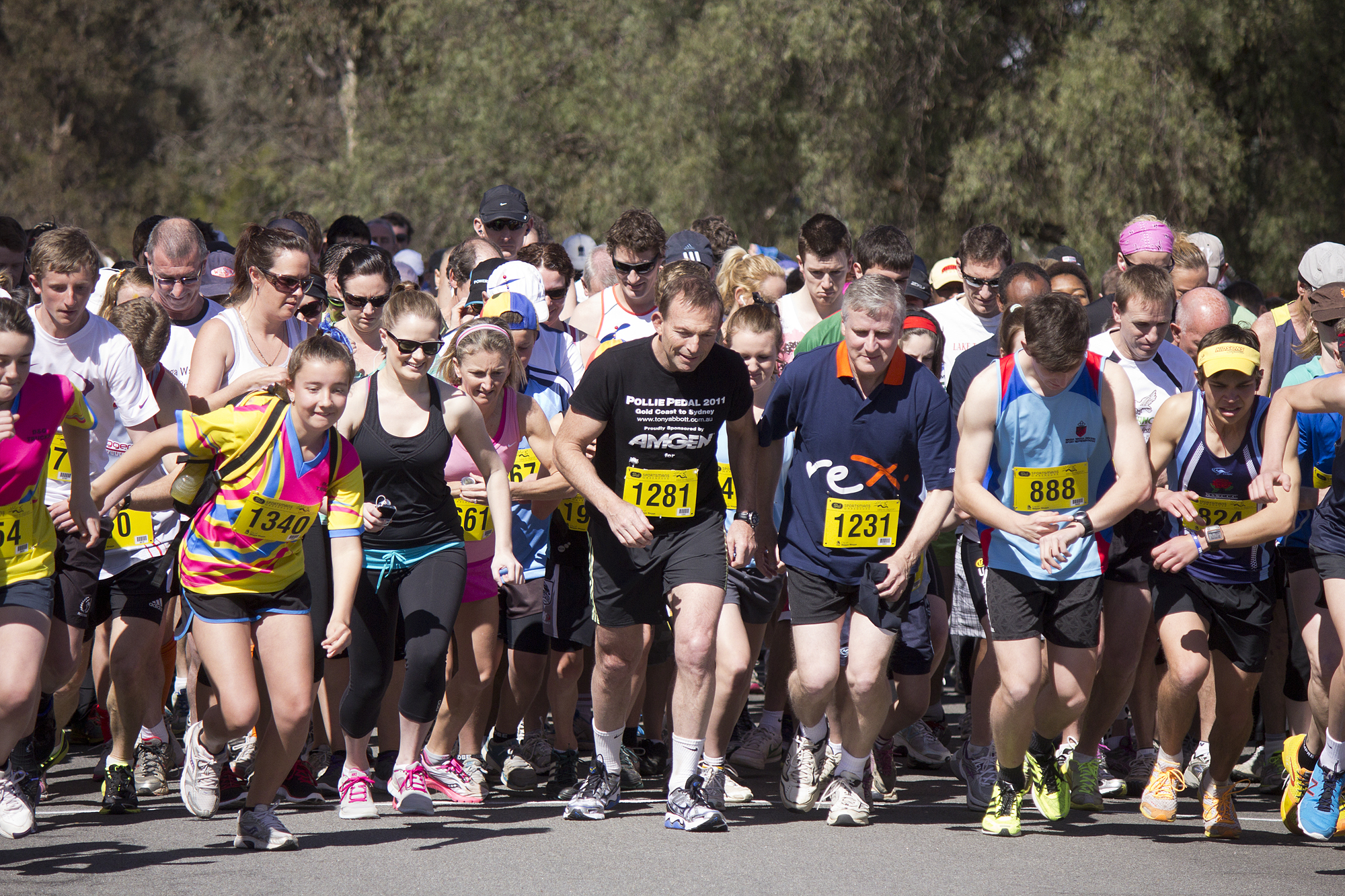 Lake to Lagoon fun run begins.